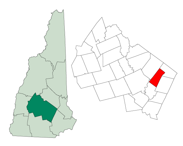 Map of a municipality in Merrimack County, New Hampshire